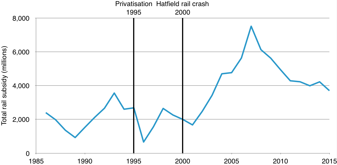 UK total rail subsidies 1986-2015 in millions of pounds[1]